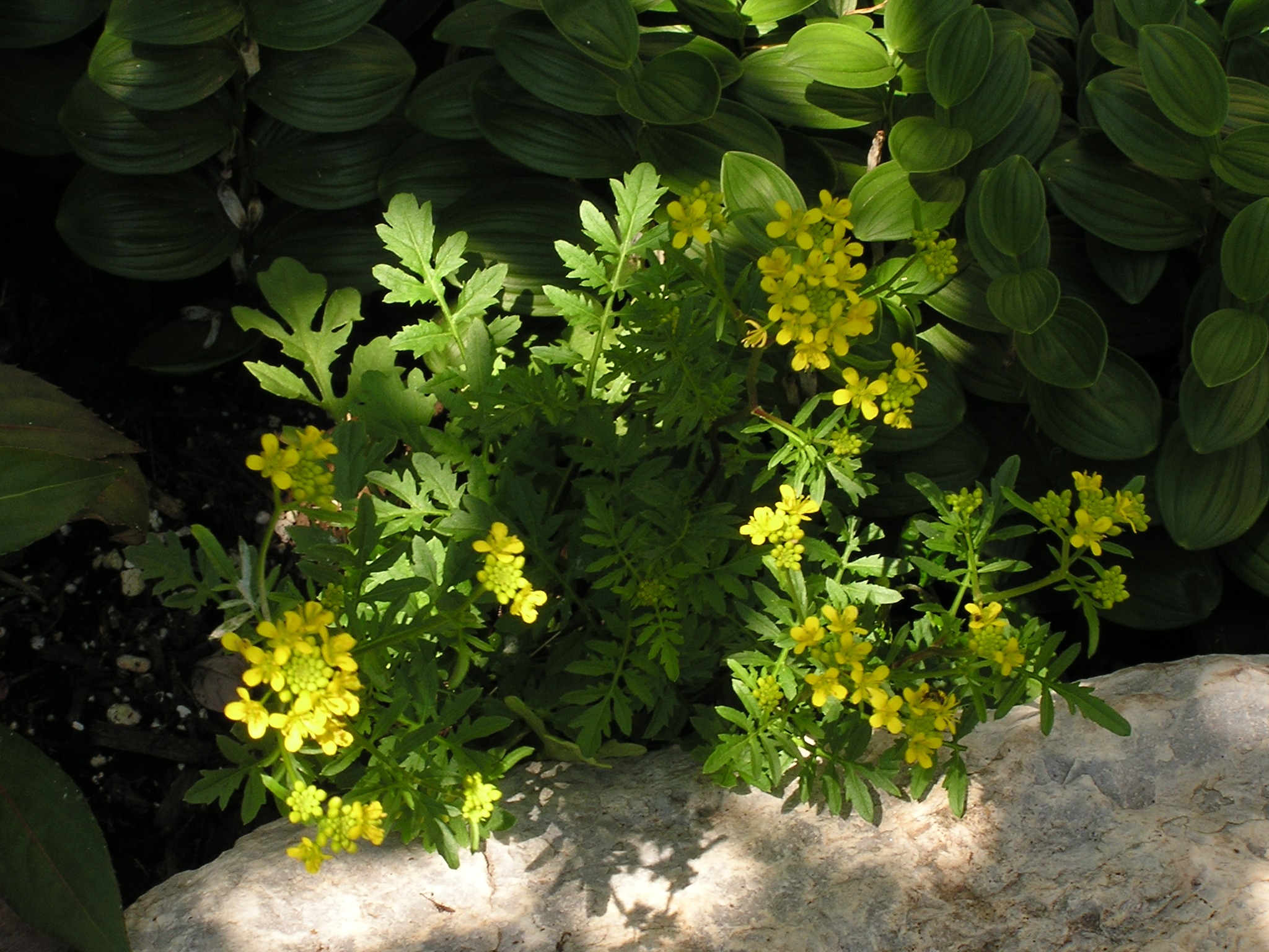 Rorippa sylvestris plant with flowers